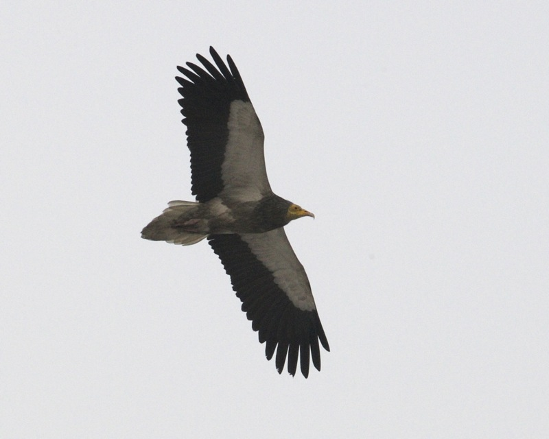 Egyptian Vulture Neophron percnopterus ssp Neophron percnopterus ginginianus Location: Taj Mahal, Agra, India 8th. January 2009 Distribution: 690V1288